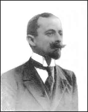 Lt. Ludovico De Filipppi as Capt. of the RN "Cesare Rossarol".